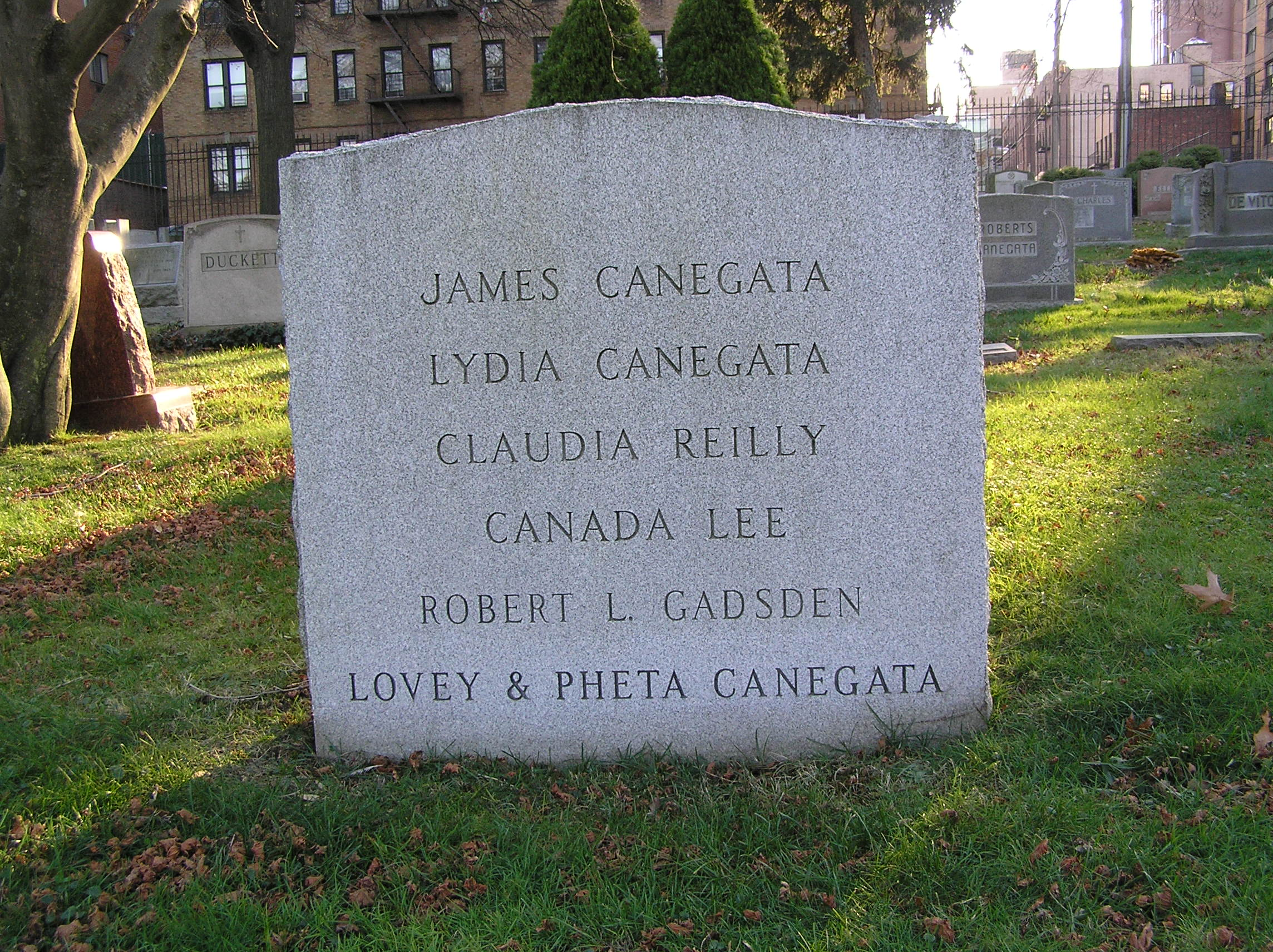 The gravesite of Canada Lee in Woodlawn Cemetery